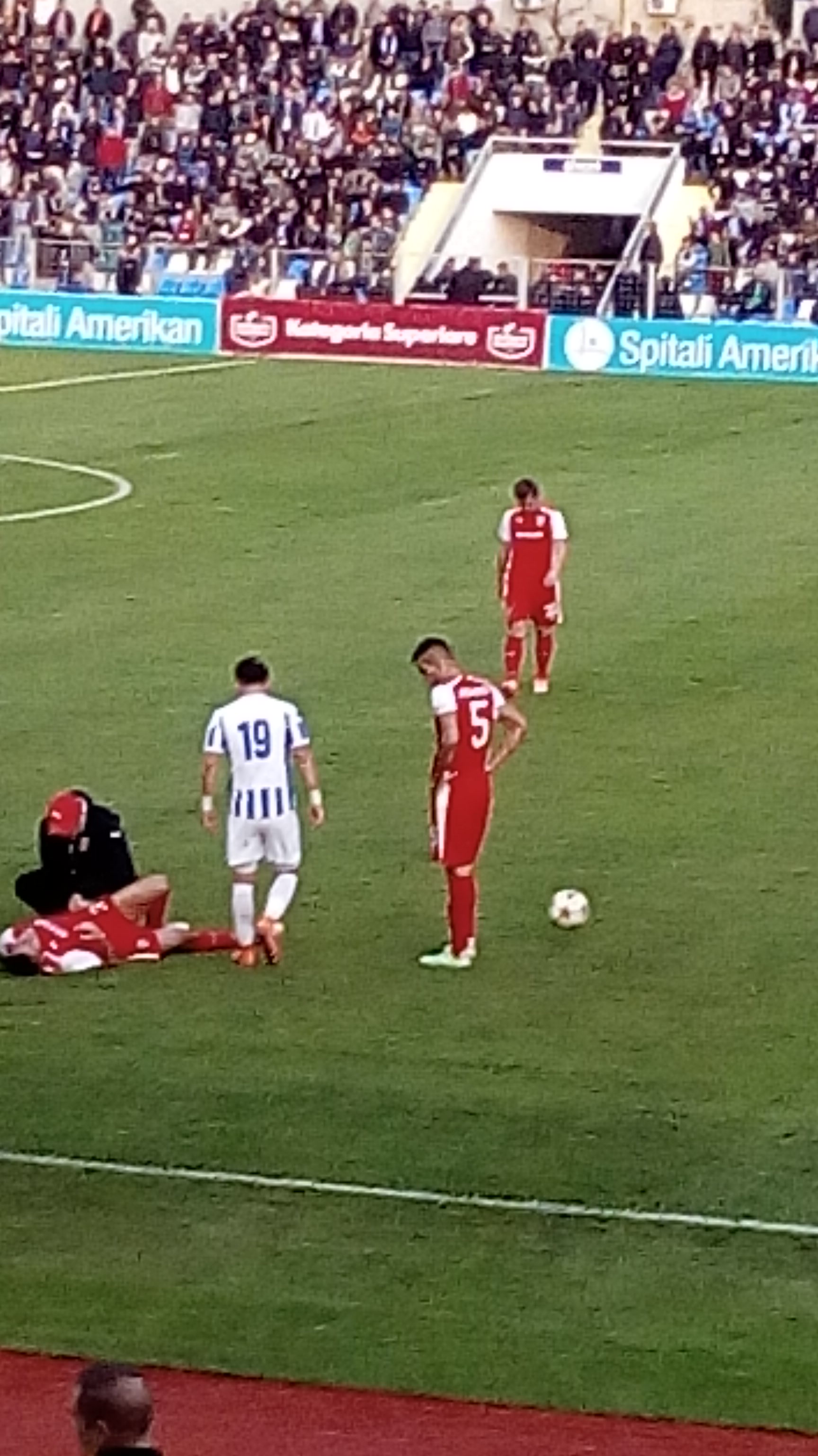 Bakaj and Jashanica